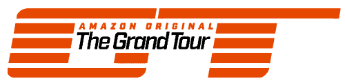 Logo of the The Grand Tour (2016 TV series)